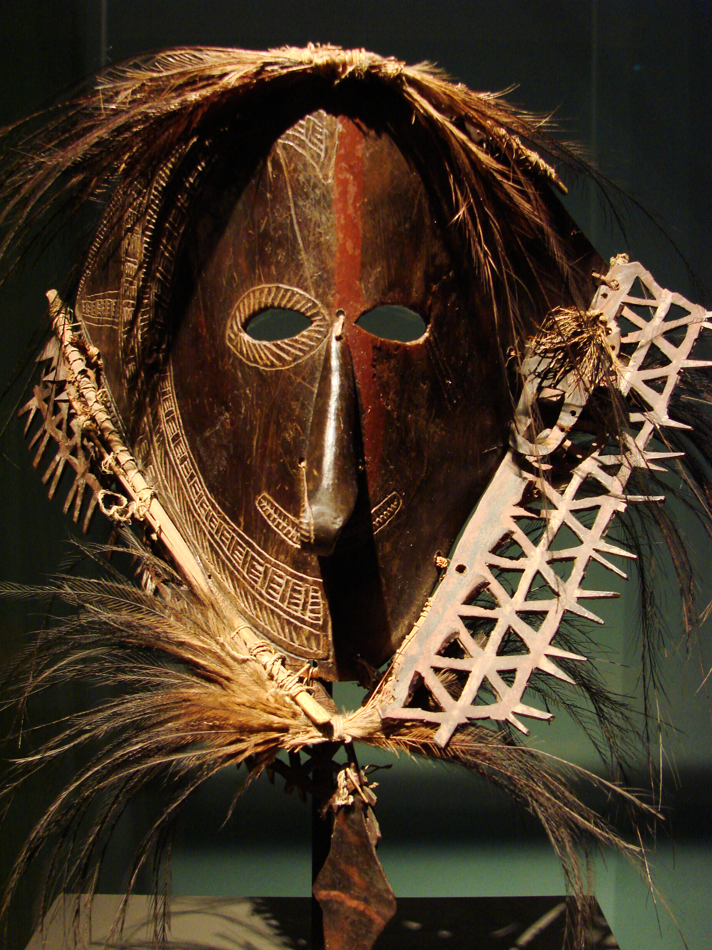 Face mask from an island in the Torres Strait, Australia